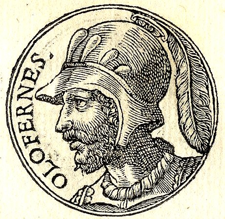 Holofernes was an invading general of "Nebuchadnezzar". "Nebuchadnezzar" dispatched Holofernes to take vengeance on the nations of the west that had withheld their assistance to his reign.